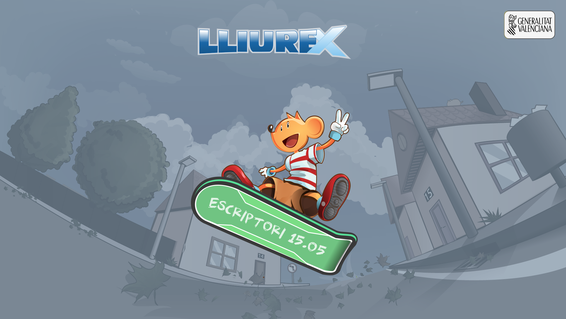 Desktop of LliureX Client